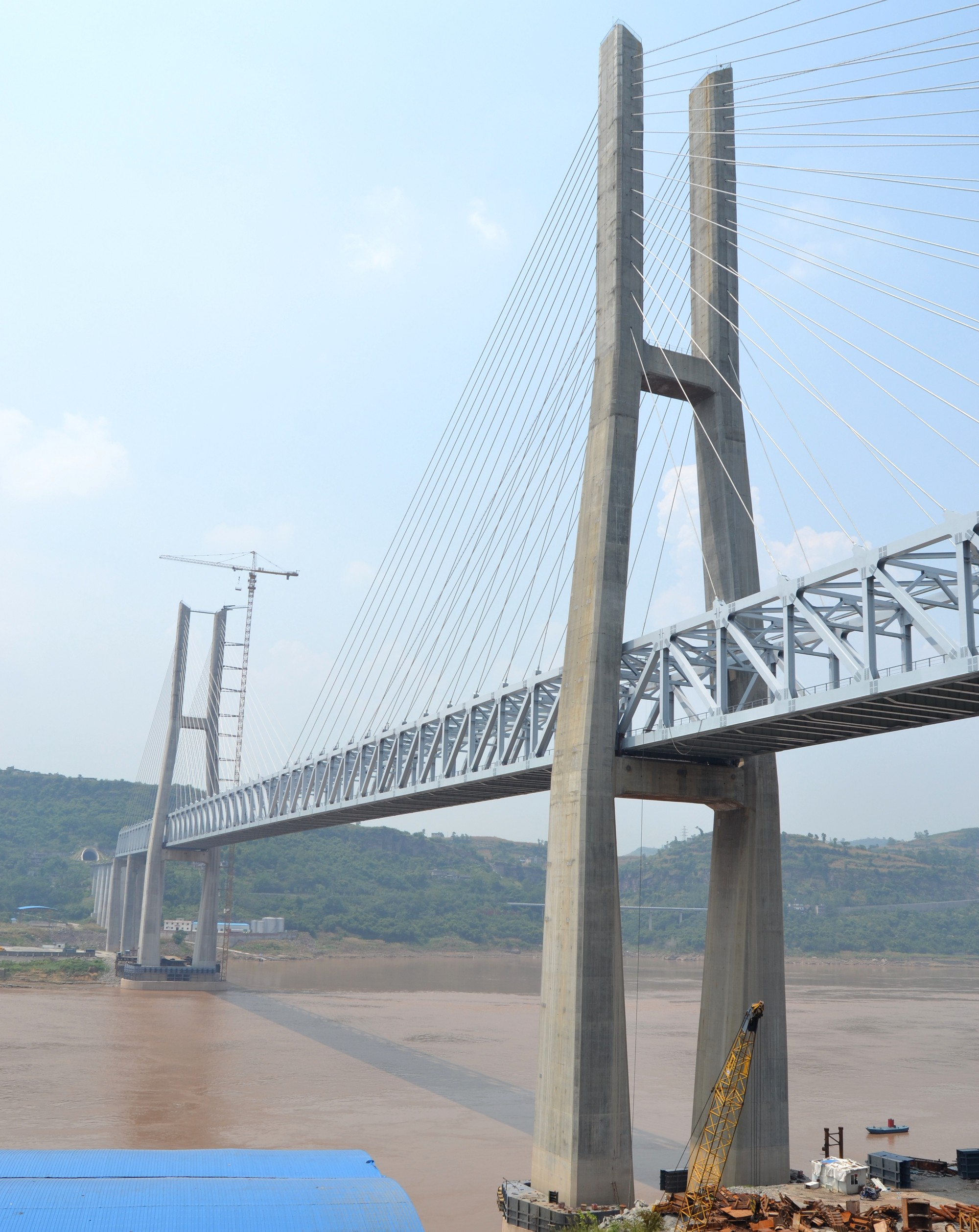 The Tan Yujiatuo Bridge over the Yangzi River in Chongqing Municipality in China